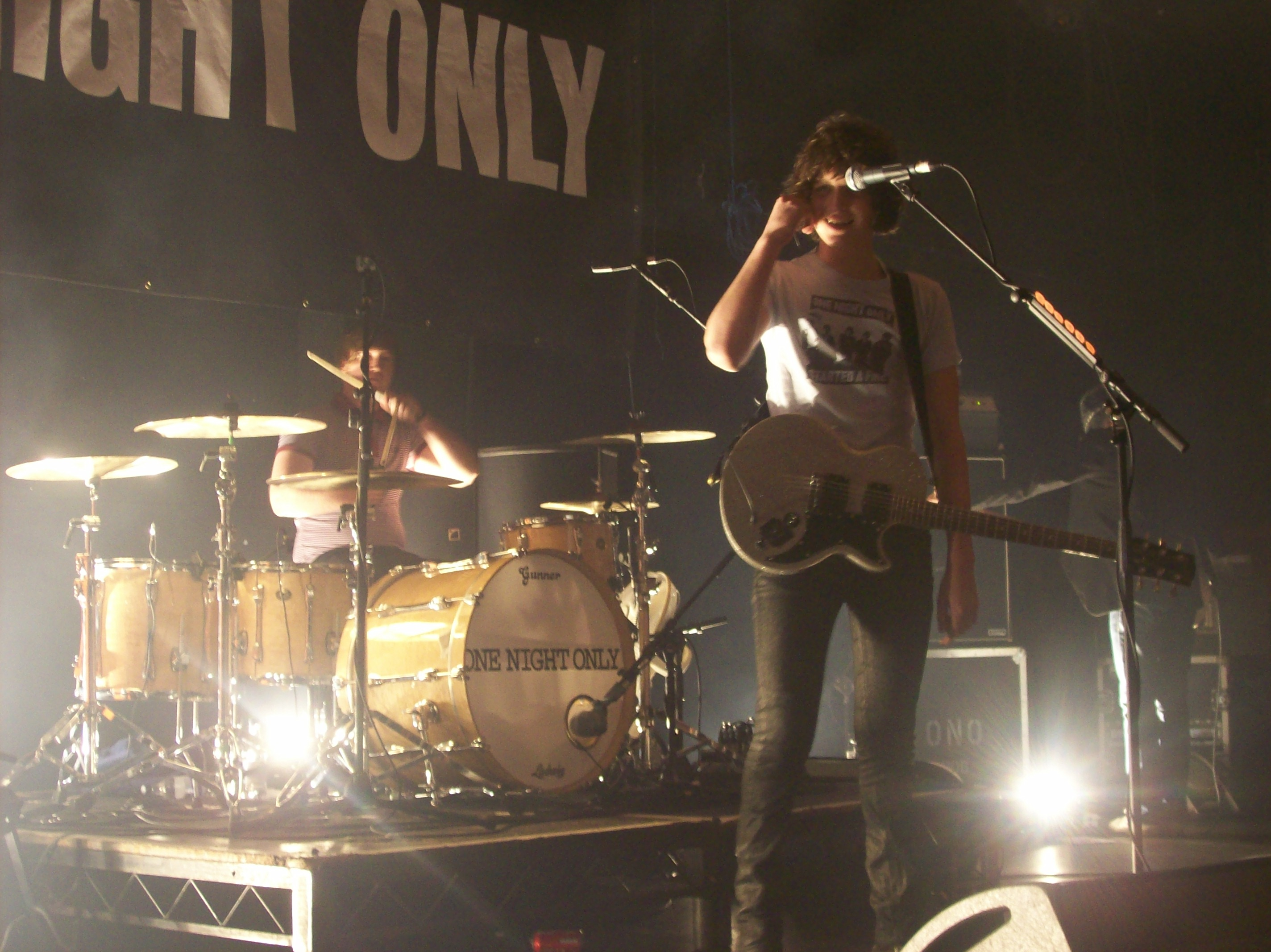 "One Night Only", live in concert 2008